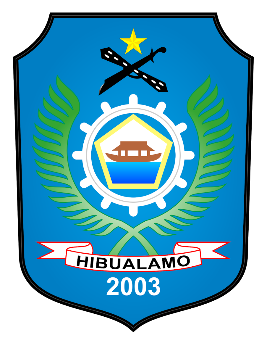 Lambang (Coat of Arms) of Kabupaten (Regency) of Halmahera Utara (North Halmahera), Provinsi Maluku Utara (North Maluku) (the Molucca islands, aka The Spice Islands), Indonesia